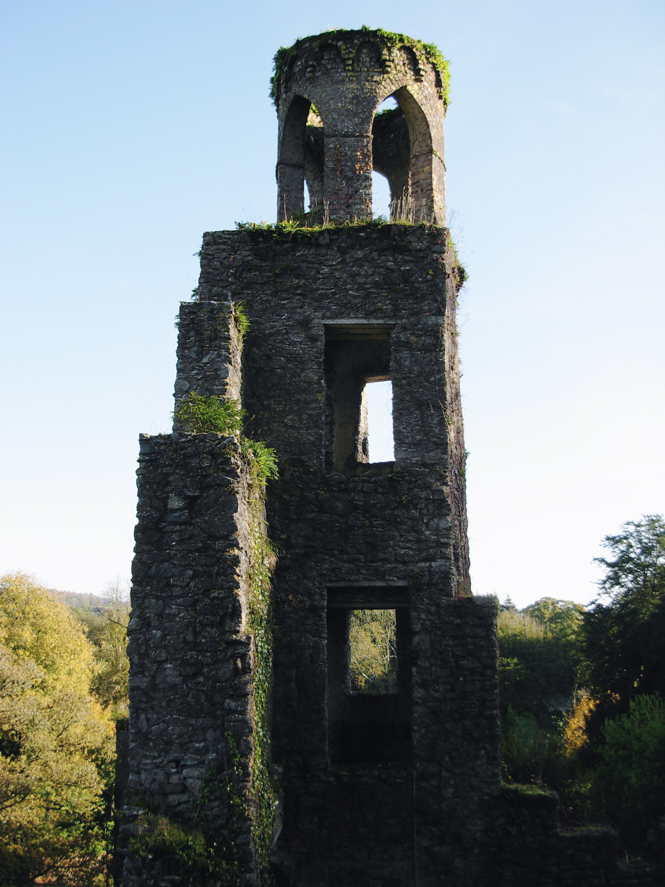 Blarney castle